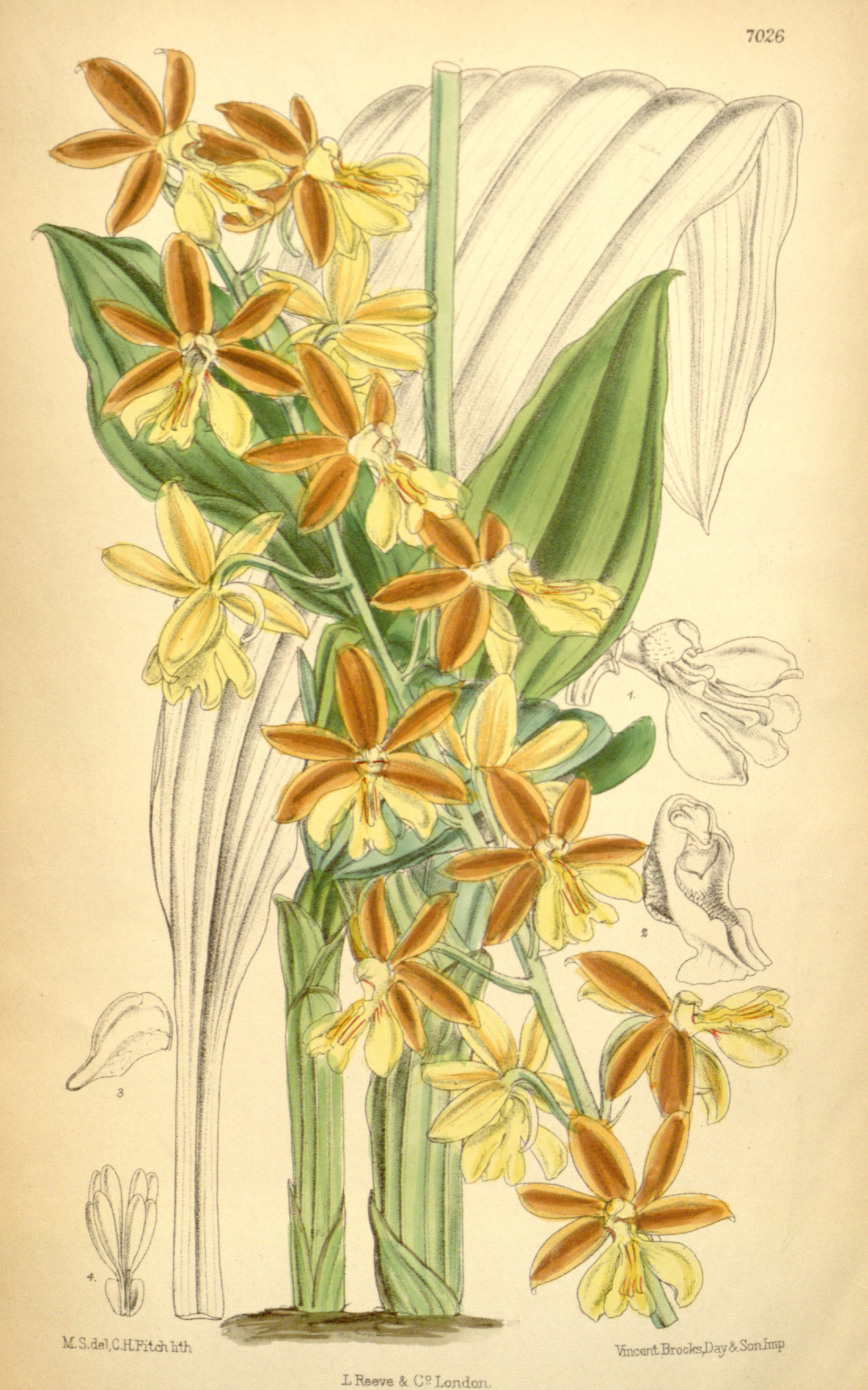 Illustration of Calanthe striata